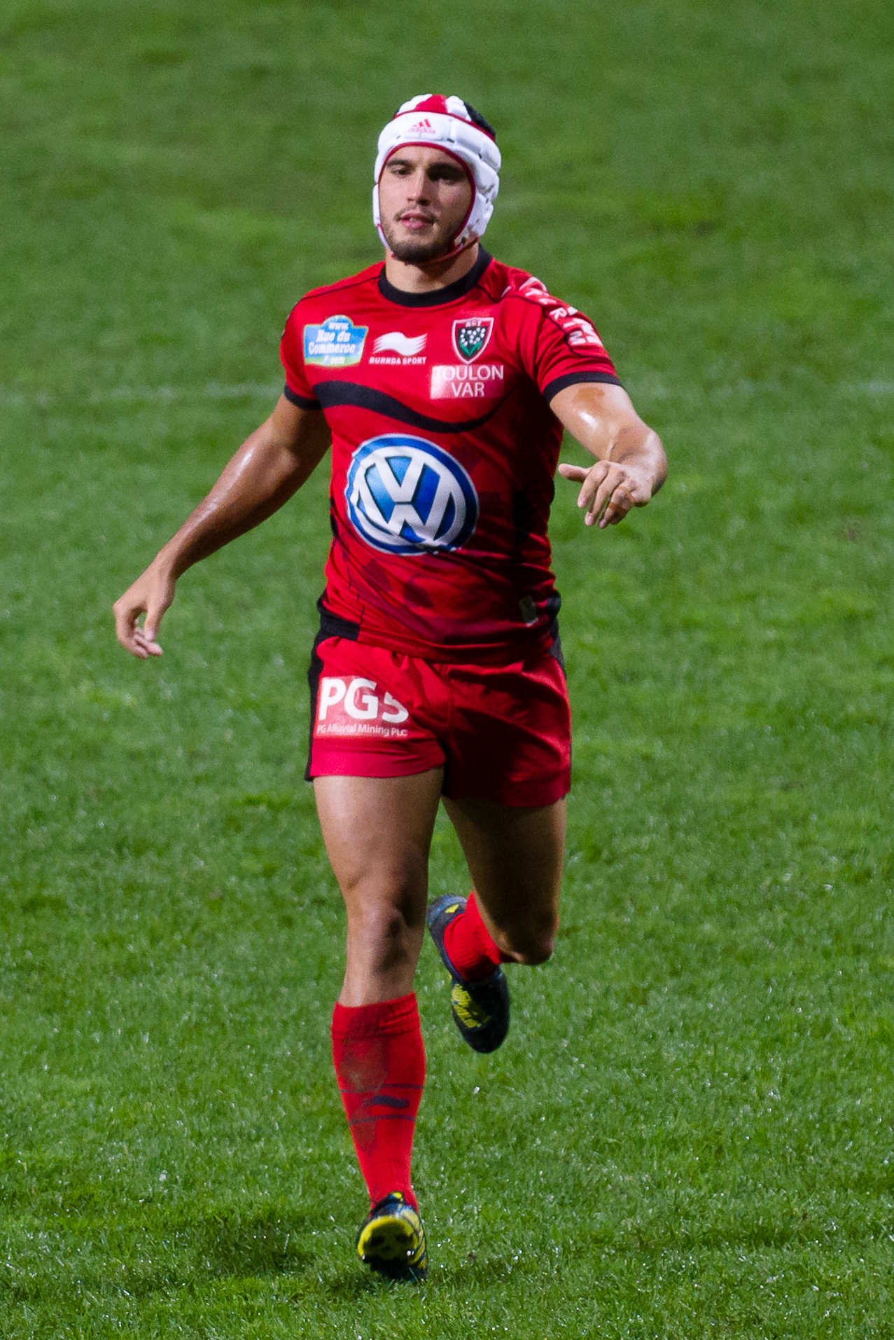 Top 14 — 29 September 2012, Stadium. Match between: Stade toulousain — RC Toulonnais